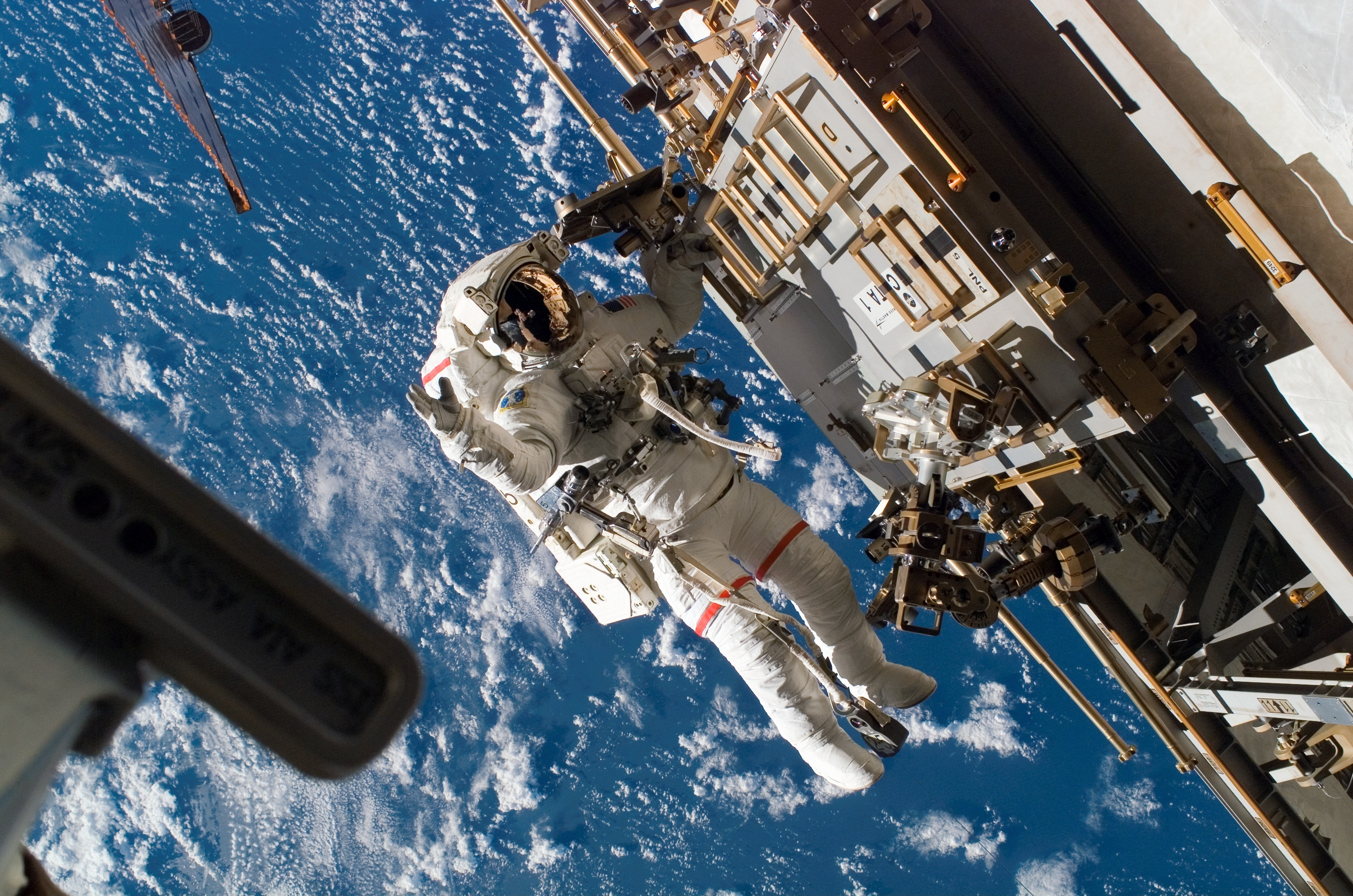 Astronaut Rick Mastracchio, STS-118 mission specialist, on a Crew and Equipment Translation Aid (CETA) cart. He participates in the mission's third planned session of extravehicular activity (EVA) as construction and maintenance continue on the International Space Station.